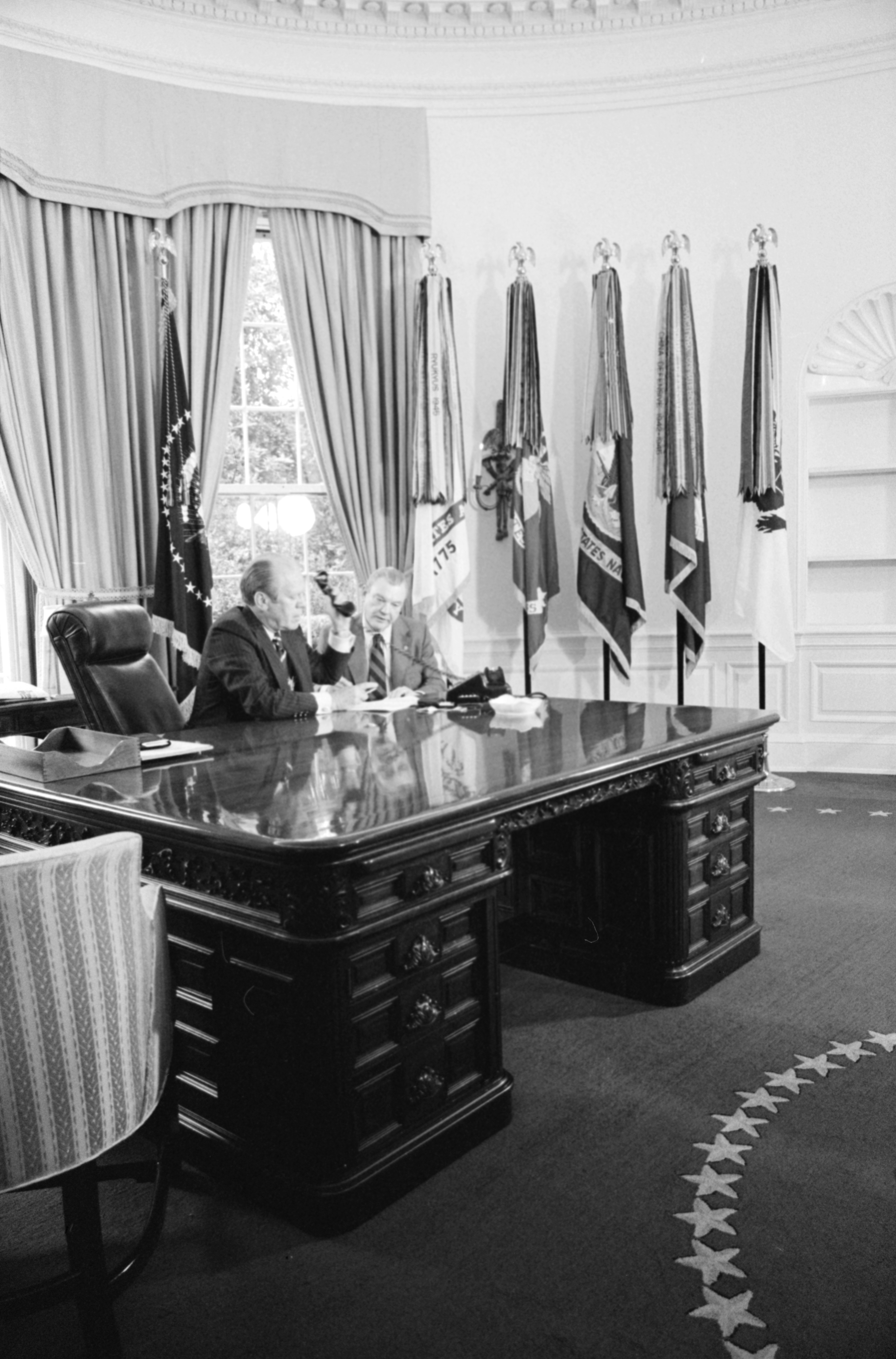 "President Gerald Ford meeting with George Meany in the Oval Office of the White House, Washington, D.C."